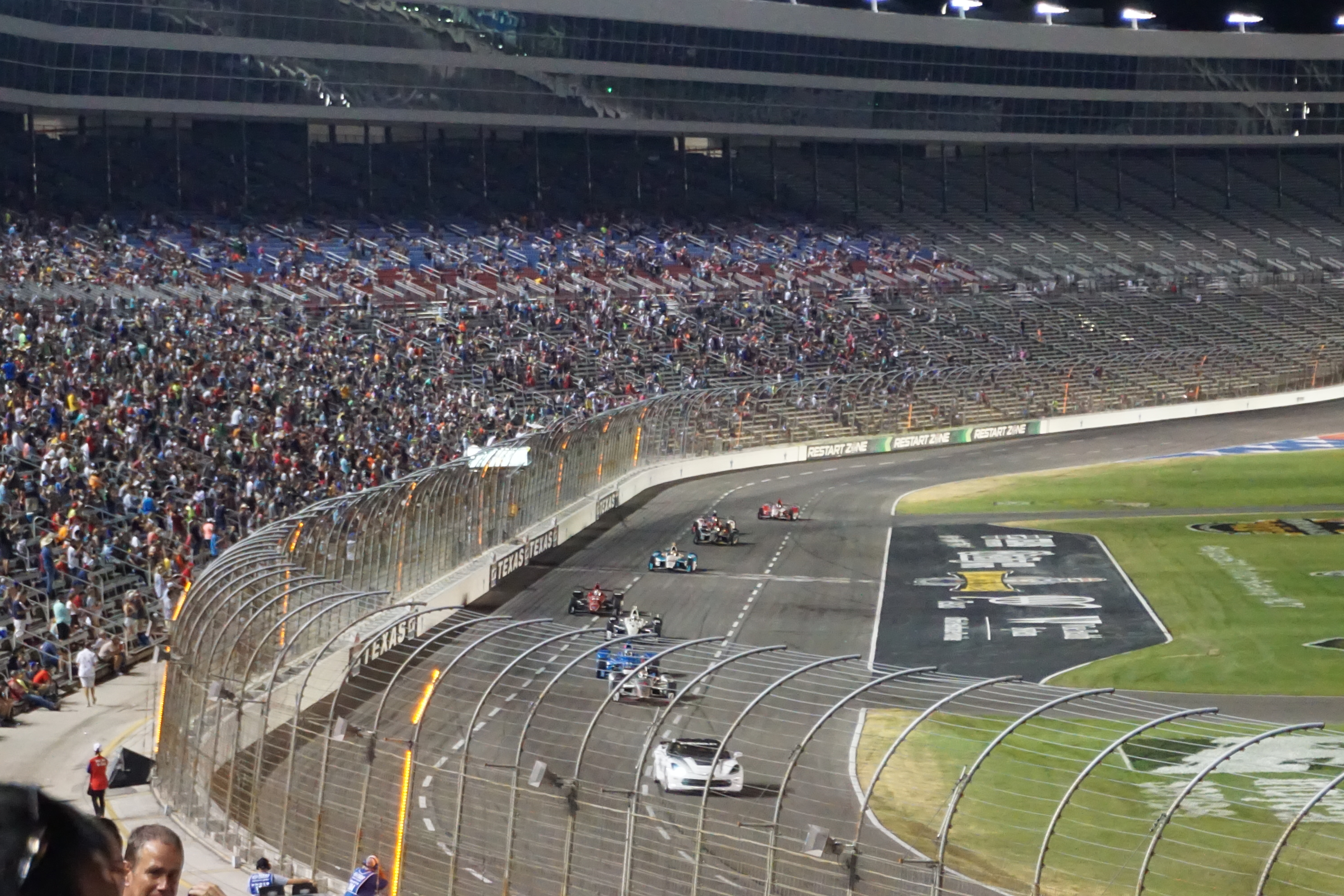 A caution during the 2017 Rainguard Water Sealers 600 at Texas Motor Speedway in Fort Worth, Texas (United States).